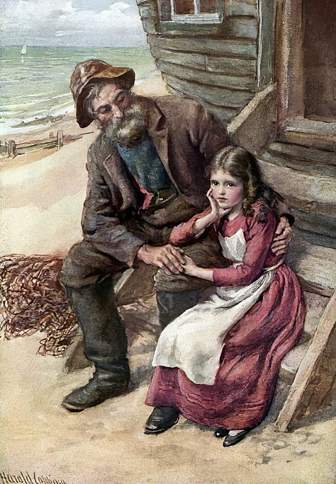 Charles Dickens s David Copperfield